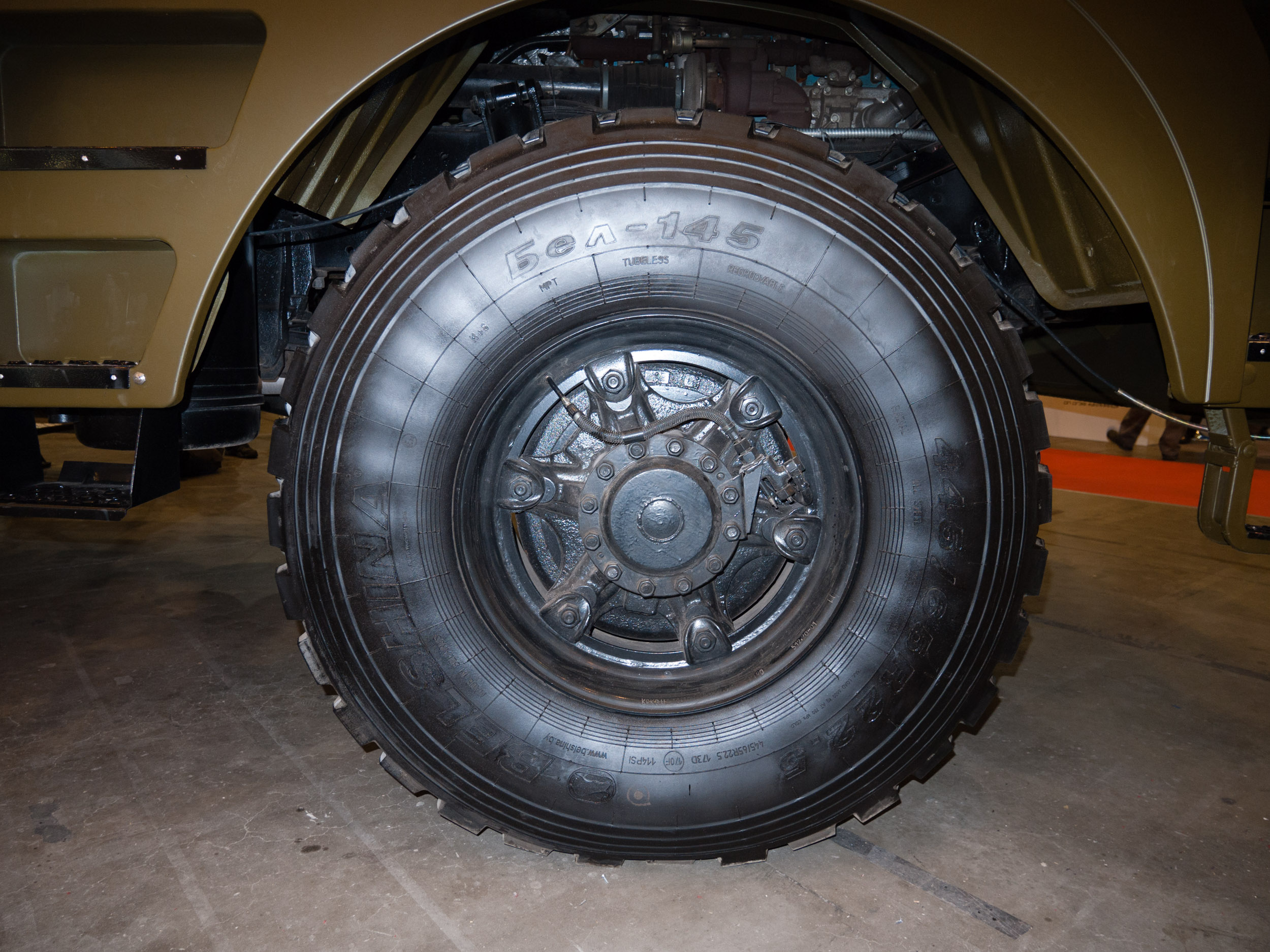 BM-21UM Berest Ukrainian MRLS, 'Zbroya ta Bezpeka' military fair, Kyiv, Ukraine, 2018